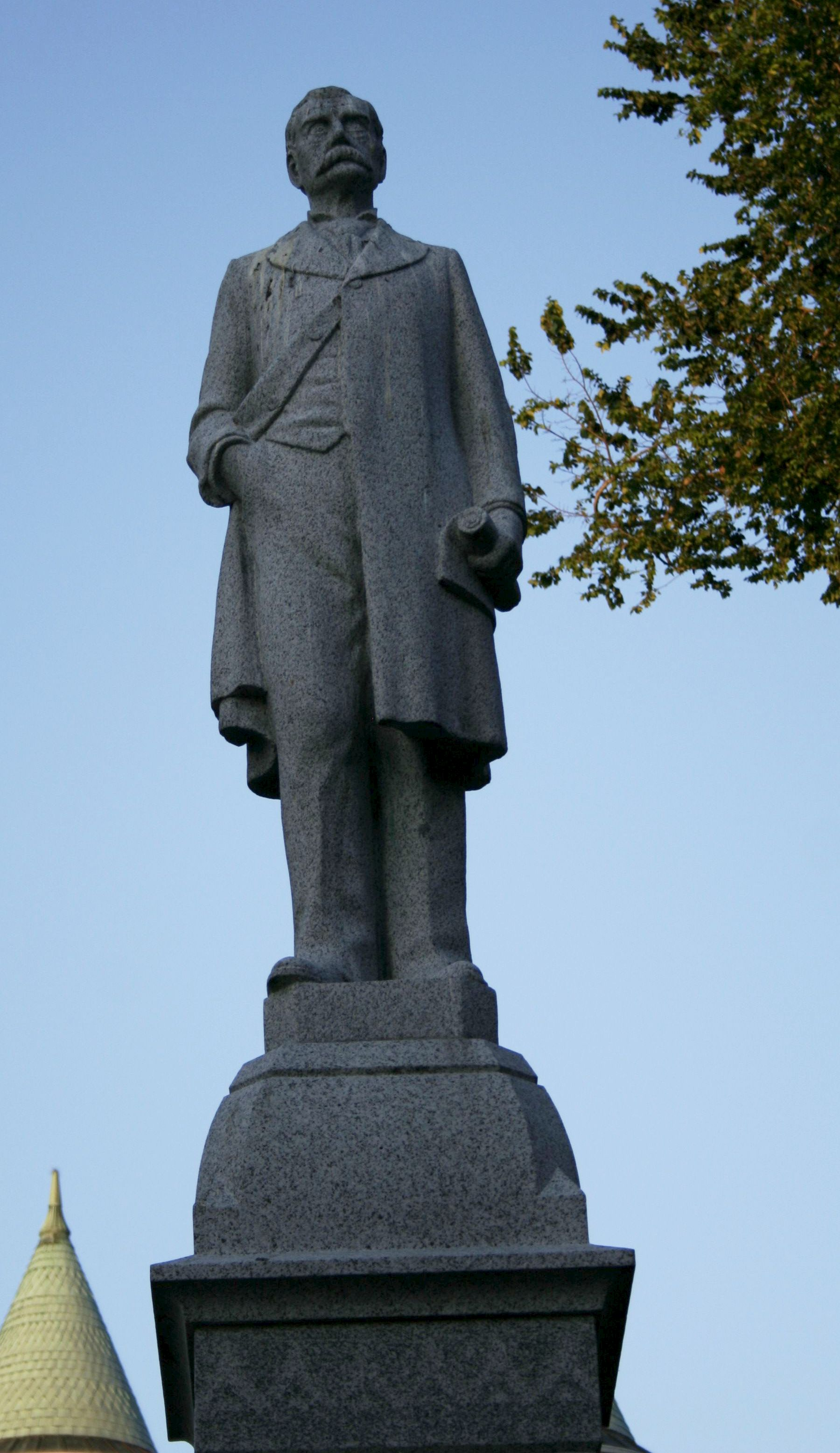 Statue of John Rankin Rogers, Olympia, WA.